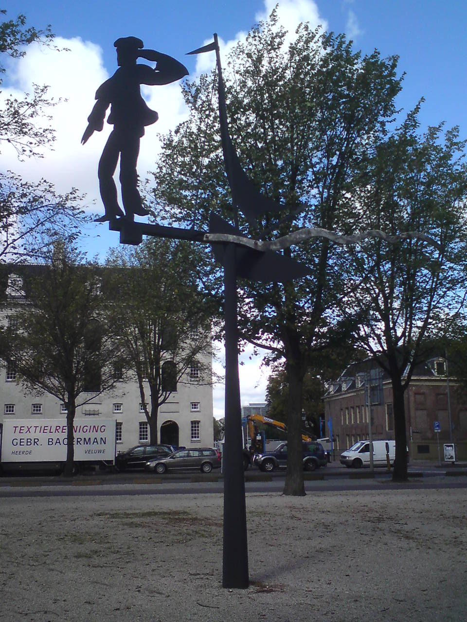 Sculpture at the Kattenburgerplein in Amsterdam, Sculptor: Alphons Freijmuth, title: The sailing man, 1986